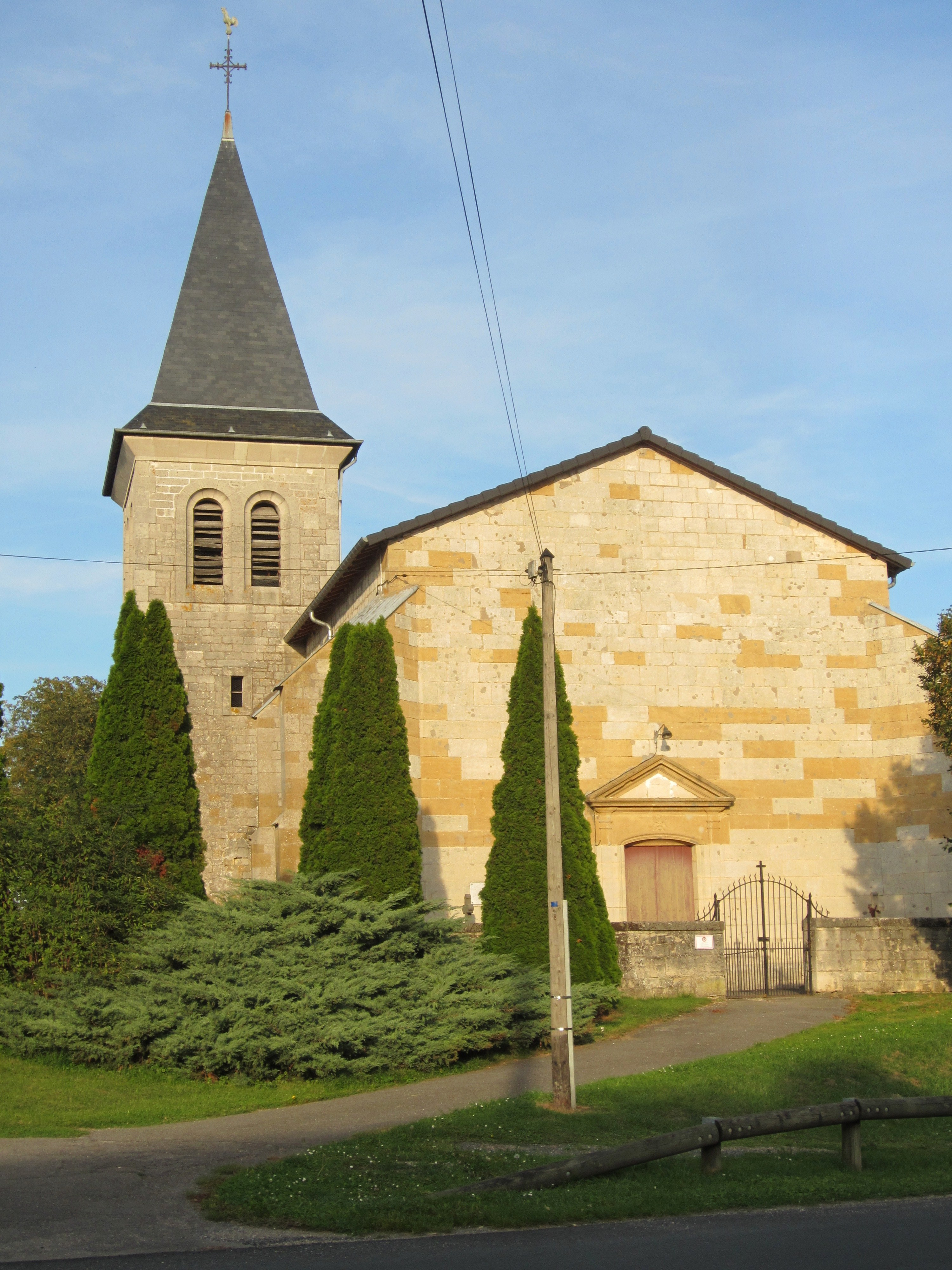 Description eglise Harville Date25 September 2011Sourcemon appareil photoAuthorAimelaimePermission (Reusing this file) eglise Harville